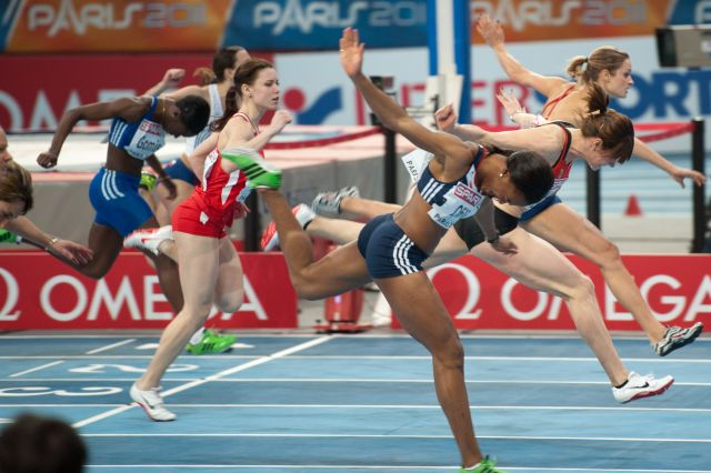 Sandra Gomis, Alina Talay, Tiffany Porter (Ofili), Carolin Nytra, Christina Vukicevic at the 2011 European Athletics Indoor Championships in Paris